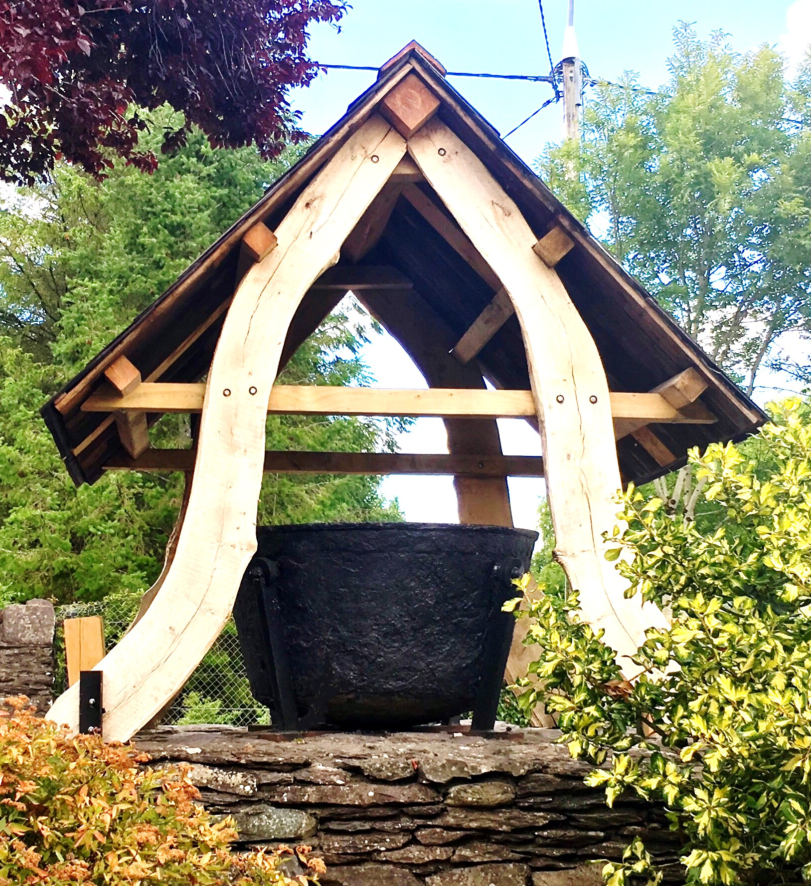 The Coolmountain Famine Soup Pot, Ballingeary, County Cork. This large, cast iron, vessel was used to make soup for starving families during the Great Irish Famine, 1847-51. It was provided by the resident of Coolmountain House, a few miles away in this parish. It was discovered this century, by the local historical society, in use as an outdoor hot-tub. It was kindly donated to the Society and a plinth and shelter erected for its display in Ballingeary, where it stands near the bridge on the approach to the town